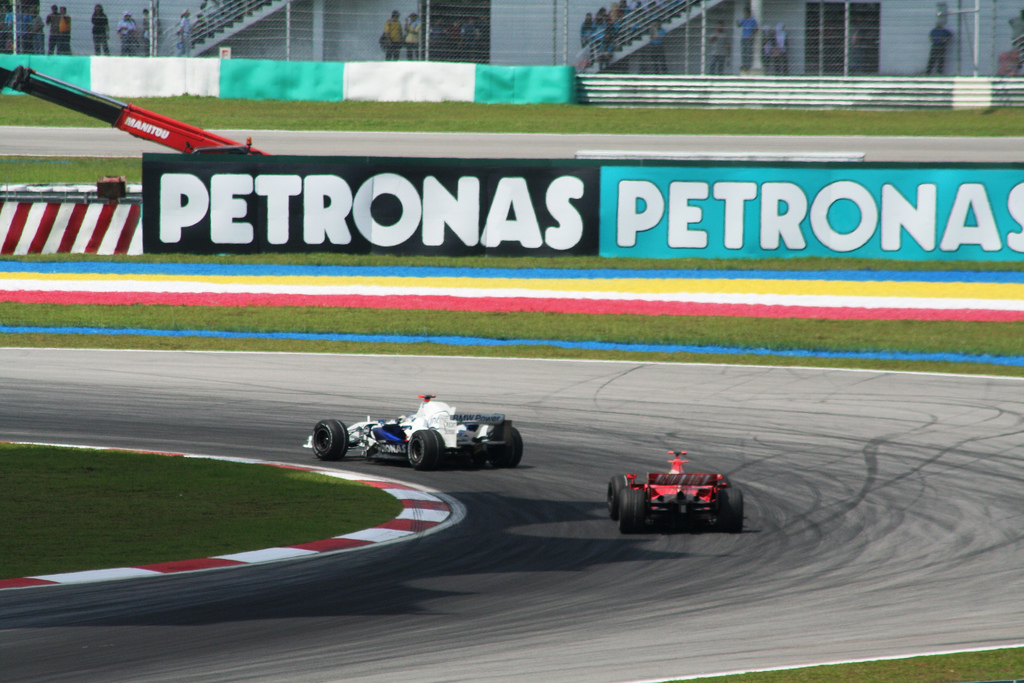 Nick Heidfeld (BMW Sauber) and Felipe Massa (Ferrari) at the 2007 Malaysian Grand Prix.